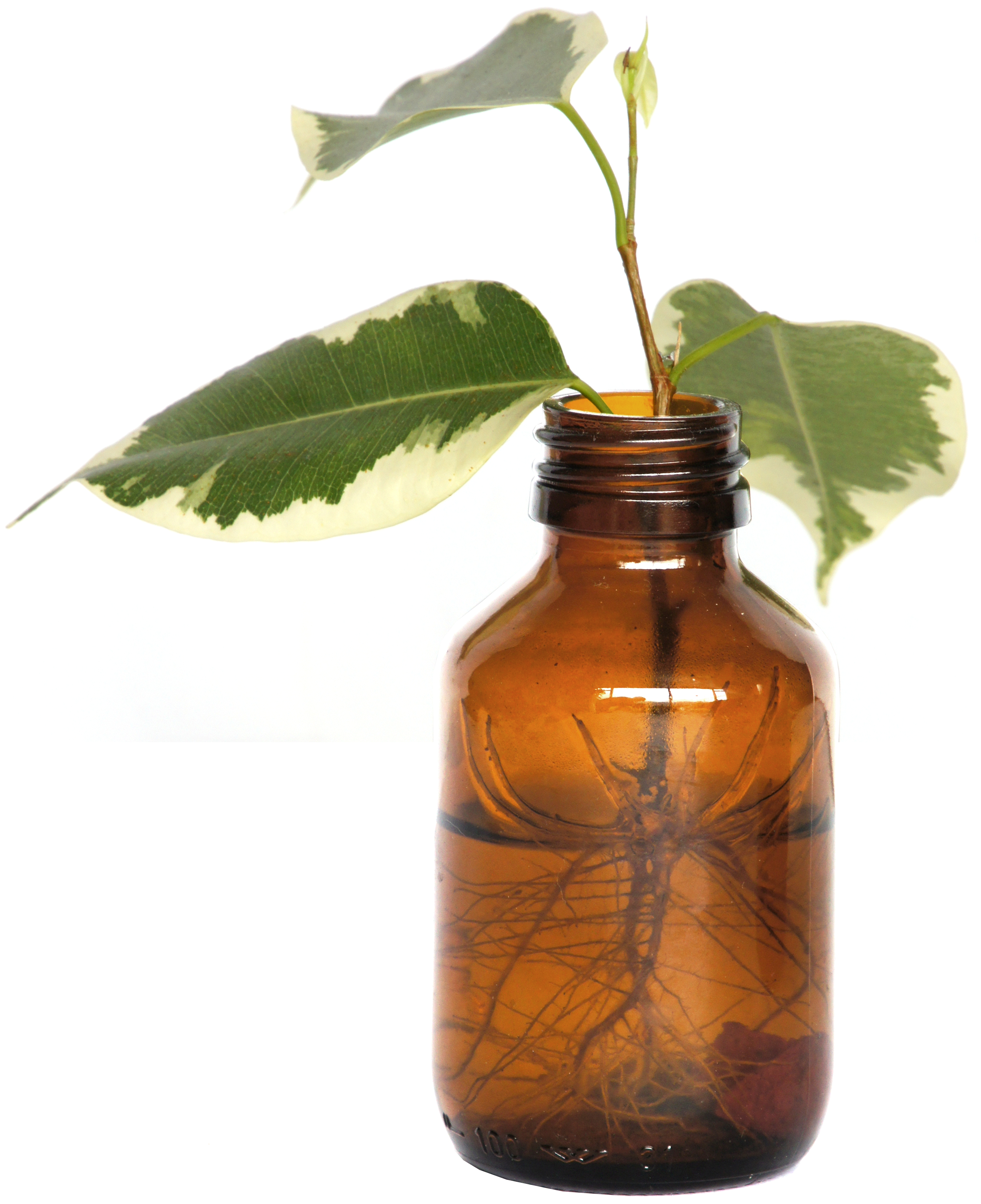 Ficus Benjamina cuttings with roots in a bottle / dark container with water and bricks waste. Grows without hormones or chemicals. white background.